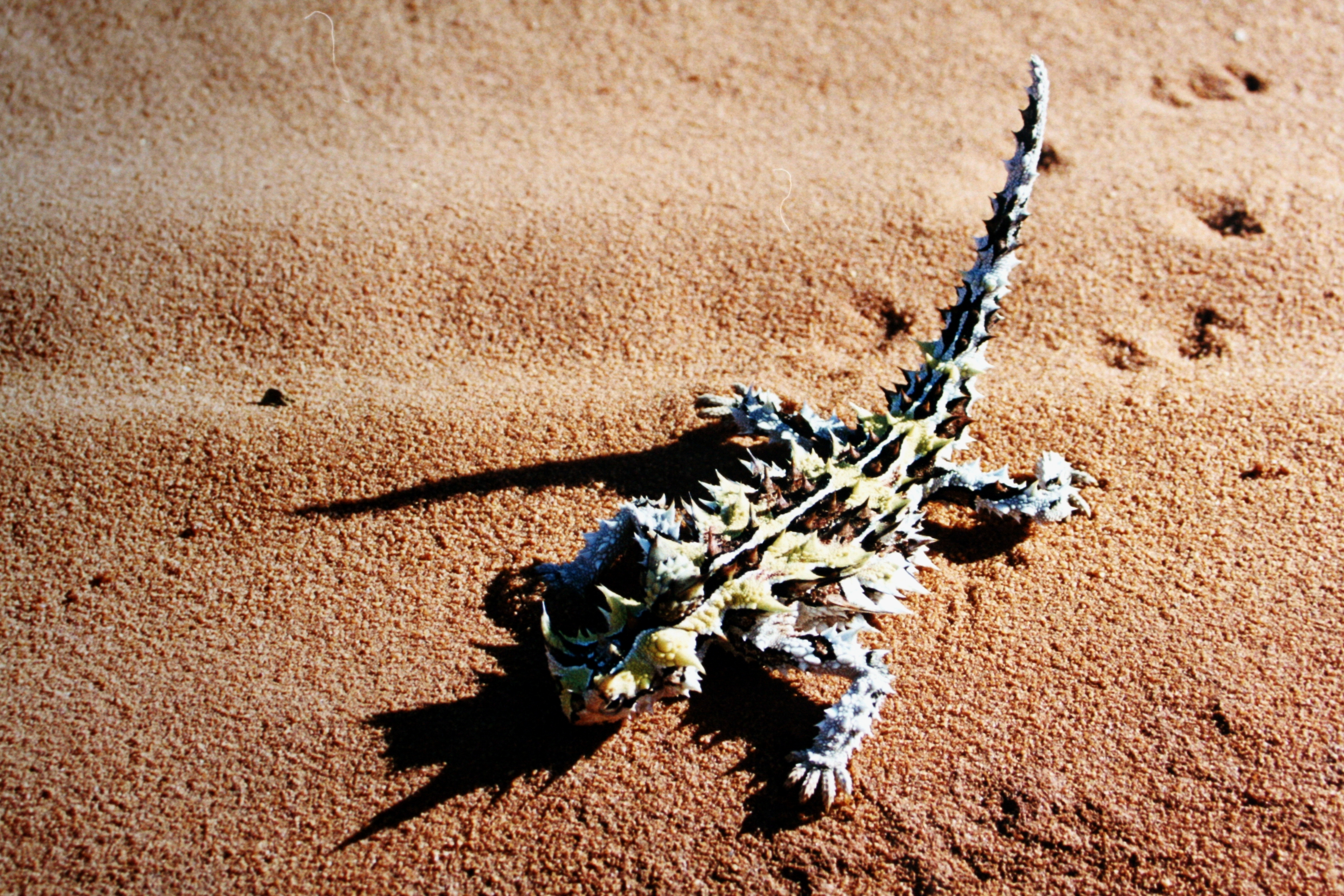 Thorny devil The picture was taken in Western Australia by Brocken Inaglory